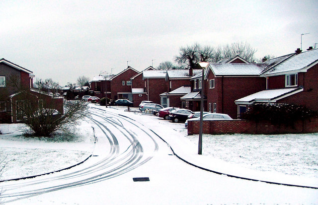 Manor Orchard Harbury Snow hits Harbury